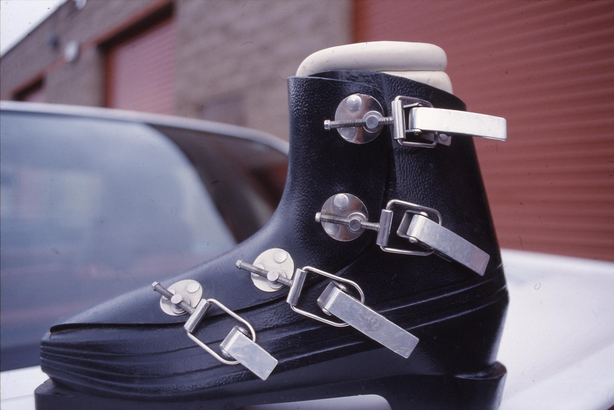 Lady Lange Competite racing boot from 1968, the first women-specific design. The Competite was the counterpart to the "generic" Comp model, but differed dramatically in form. The Competite used a single large closure flap stretching across the entire front of the boot, whereas the Comp used finger-like extensions like those on modern designs. This particular design note would not last long, follow-up models of the Competite also used the finger-like closure, and these have remained in use to this day. This example is from the collection of Sven Coomer, a boot fitter at Mammoth. The photo was taken by David Steers some time in the 1980s, the date tag is bogus.